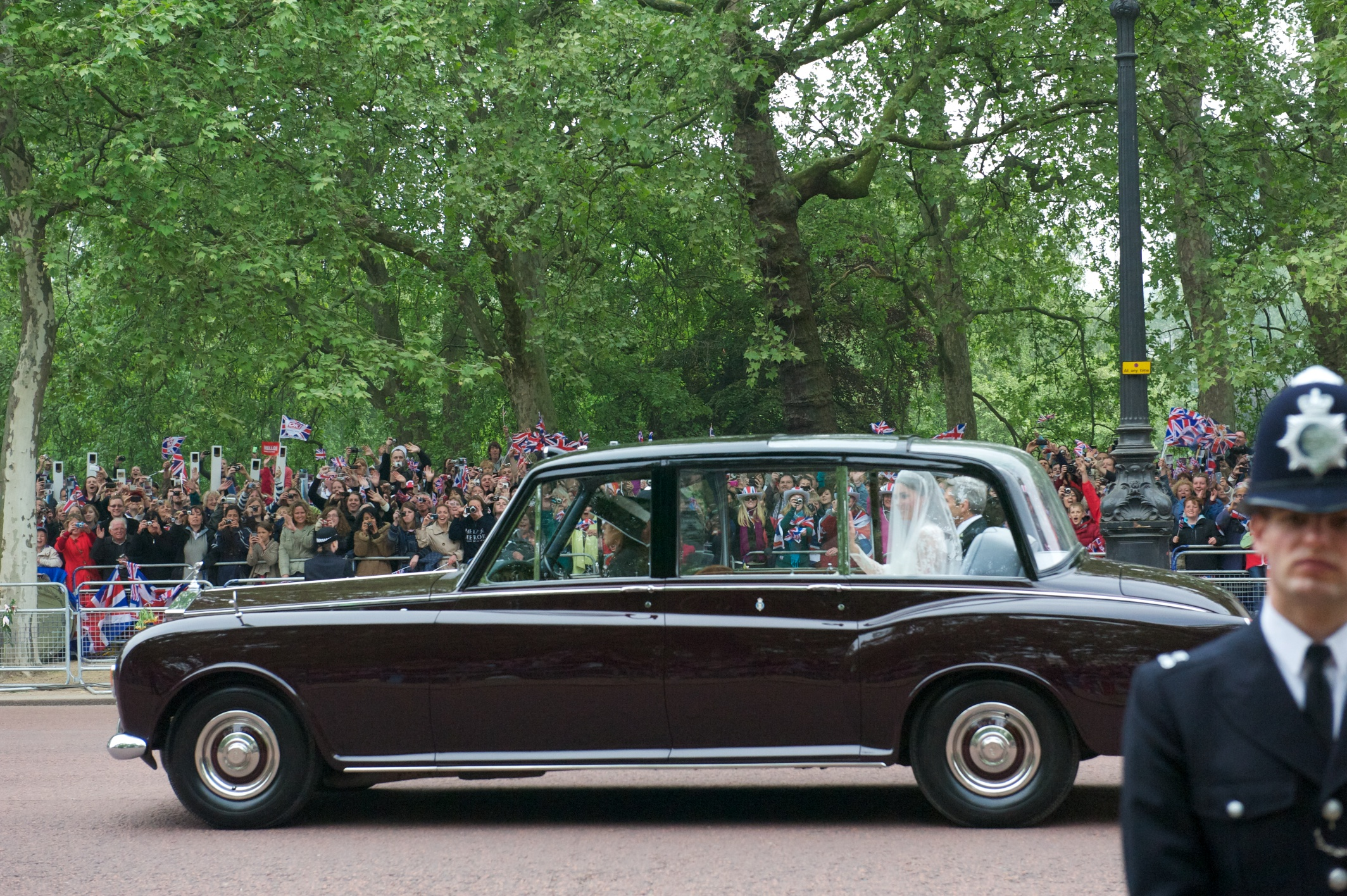 The 1977 Rolls-Royce Phantom VI of Queen Elizabeth II carrying Kate Middleton and her father to Westminster Abbey for her wedding with Prince William of Wales.